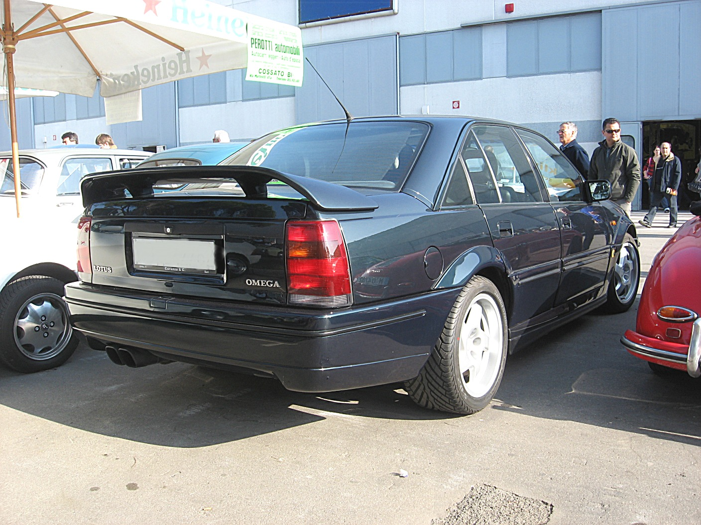 Subject: Opel Omega Lotus 3.6 24v Biturbo Date:October 26th, 2008 Event: Auto e Moto d'Epoca 2008 Place/Country: Padova, Italy I release all rights in the public domain.